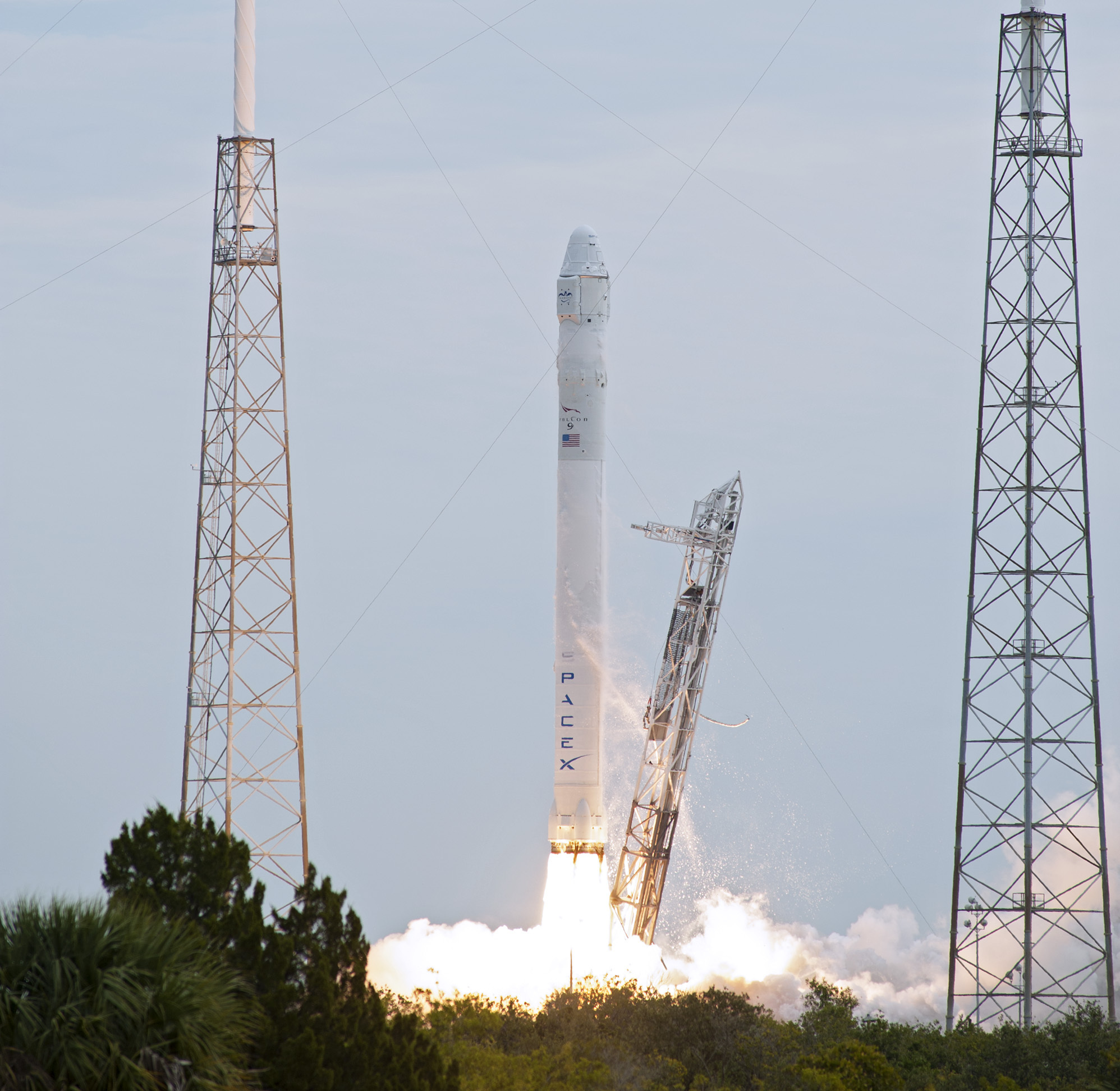 CAPE CANAVERAL, Fla. -- A Space Exploration Technologies, or SpaceX, Falcon 9 rocket lifts off Space Launch Complex 40 on Cape Canaveral Air Force Station in Florida at 10:10 a.m. EST, carrying a Dragon capsule filled with cargo. The SpaceX Dragon capsule is making its third trip to the International Space Station, following a demonstration flight in May 2012 and the first resupply mission in October 2012. The SpaceX-2 mission is the second of 12 SpaceX flights contracted by NASA to resupply the orbiting laboratory.